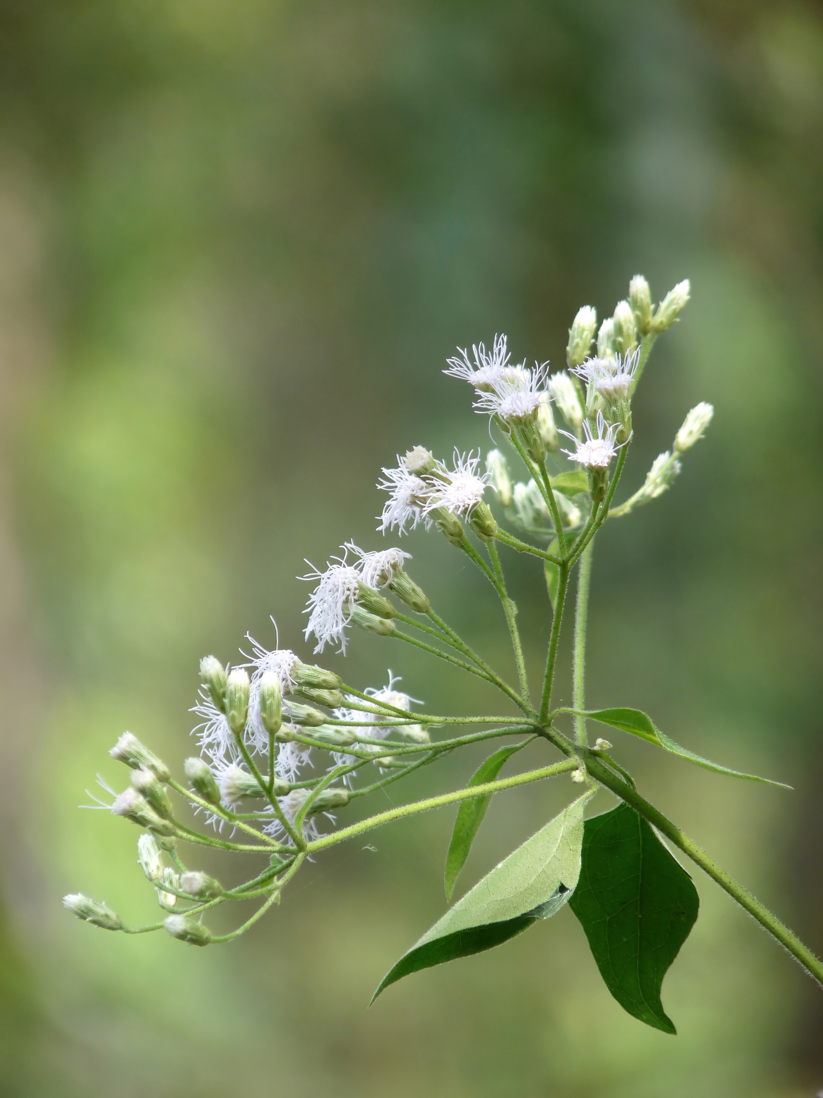 Chromolaena odorata is a tropical species of flowering shrub in the sunflower family, Asteraceae. It is native to North America, from Florida and Texas to Mexico and the Caribbean, and has been introduced to tropical Asia, west Africa, and parts of Australia. Common names include Siam Weed, Christmas Bush, Devil Weed, Camfhur Grass and Common Floss Flower. Siam Weed is a big bushy herb or subshrub with long rambling (but not twining branches. In open areas it spreads into tangled, dense thickets up to 2 m tall, and higher when climbing up vegetation. Many paired branches grow off the main stem. The base of the plant becomes hard and woody while the branch tips are soft and green. The leaves are arrowhead-shaped, 5–12 cm long and 3–7 cm wide, with three characteristic veins in a ‘pitchfork’ pattern. They grow in opposite pairs along the stems and branches. As the species name ‘odorata’ suggests, the leaves emit a pungent odour when crushed. Clusters of 10–35 pale pink–mauve or white tubular flowers, 10 mm long, are found at the ends of branches. The seeds are dark coloured, 4–5 mm long, narrow and oblong, with a parachute of white hairs which turn brown as the seed dries. Taken at Kadavoor, Kerala, India.